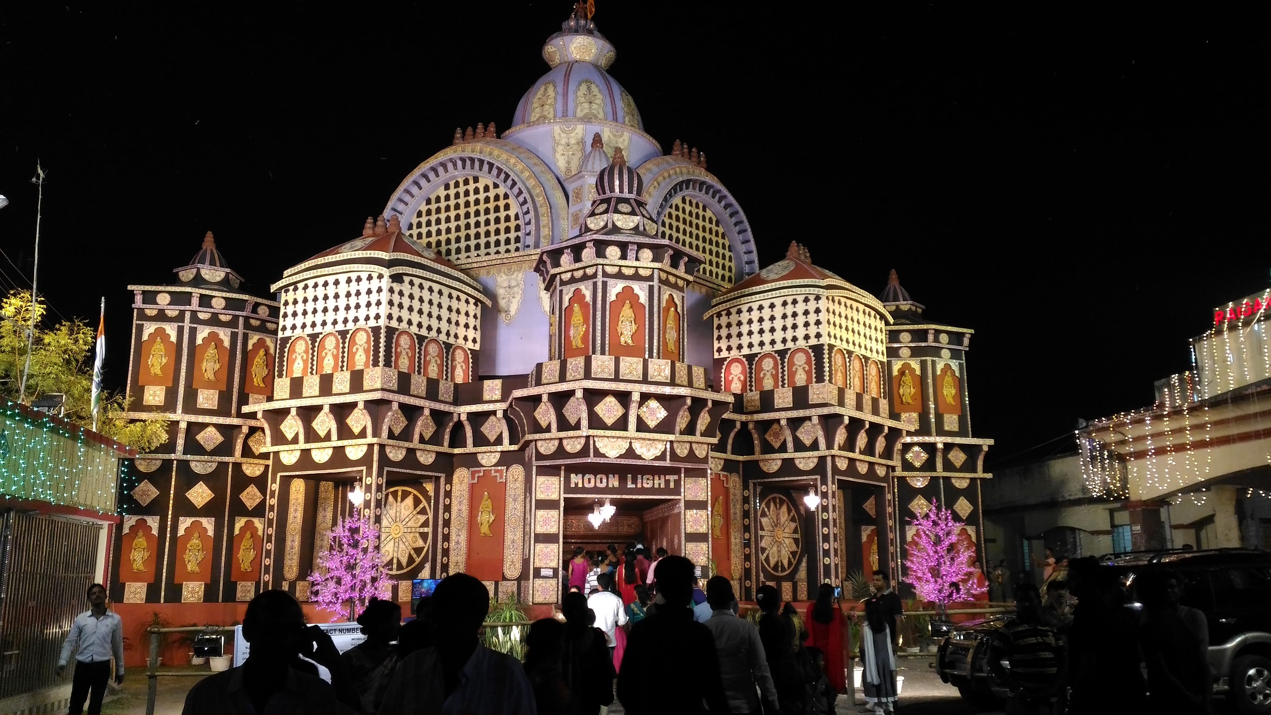 Kali Puja at Moonlight